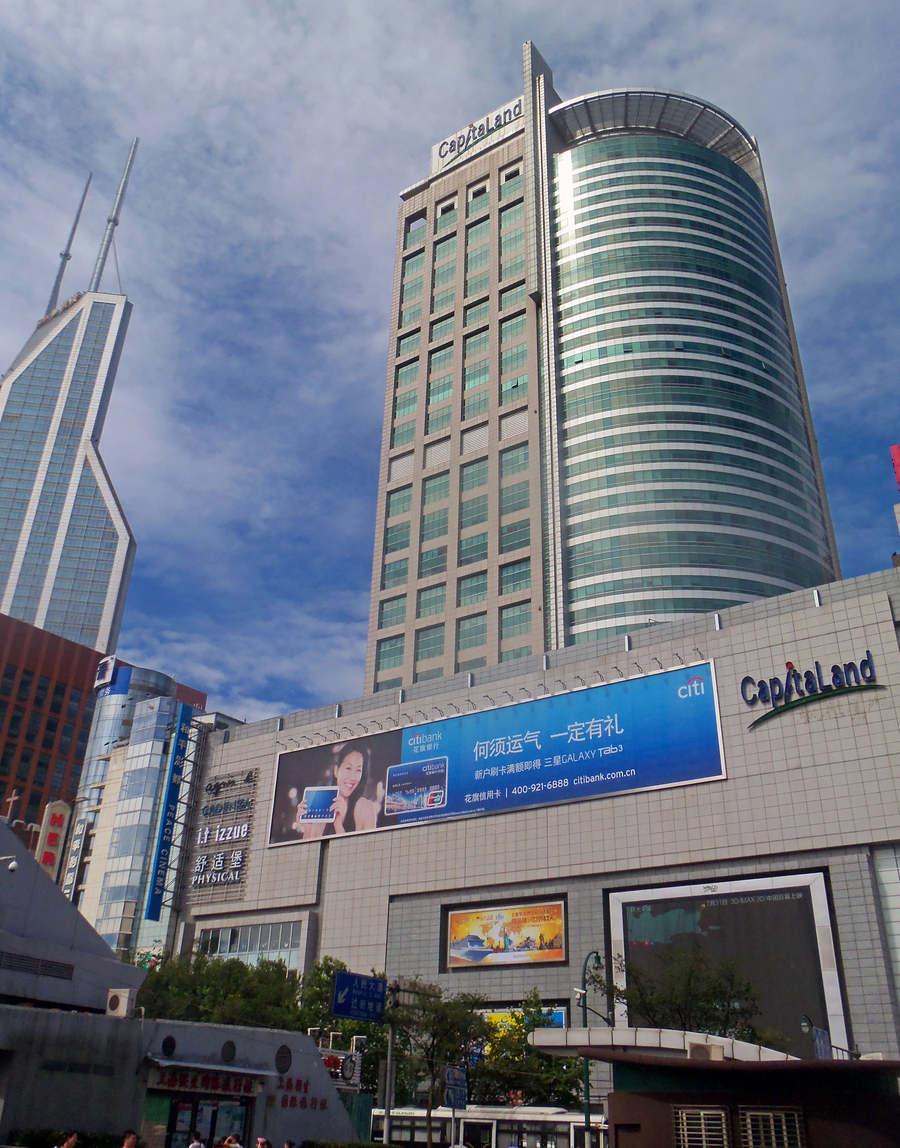 Raffles City Shanghai mall and office complex, from across the street.